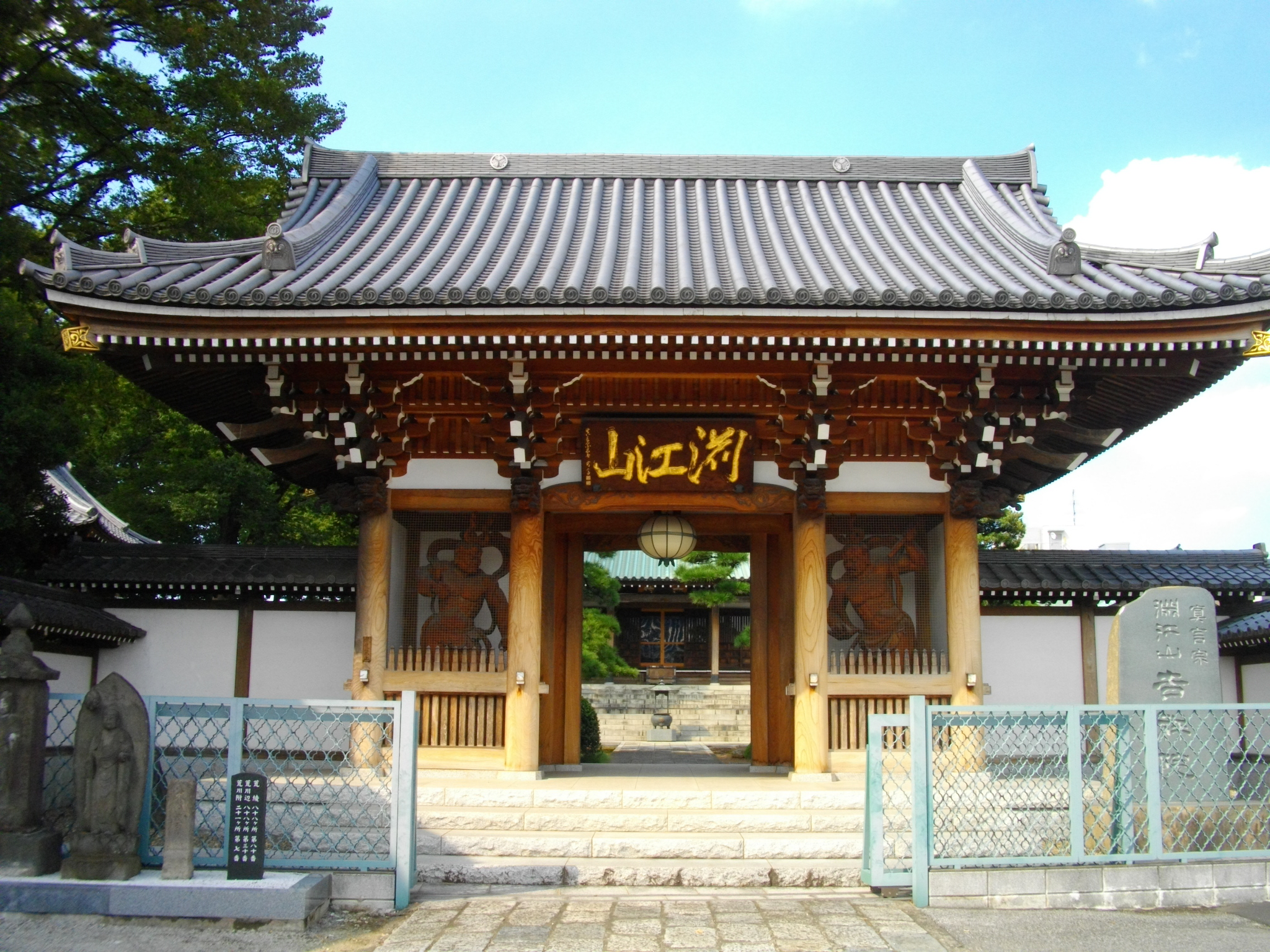 Kichijo-in (Adachi)